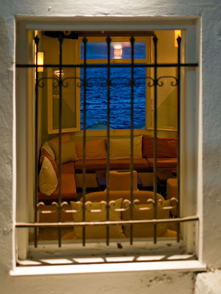 View through a bar to the sea.